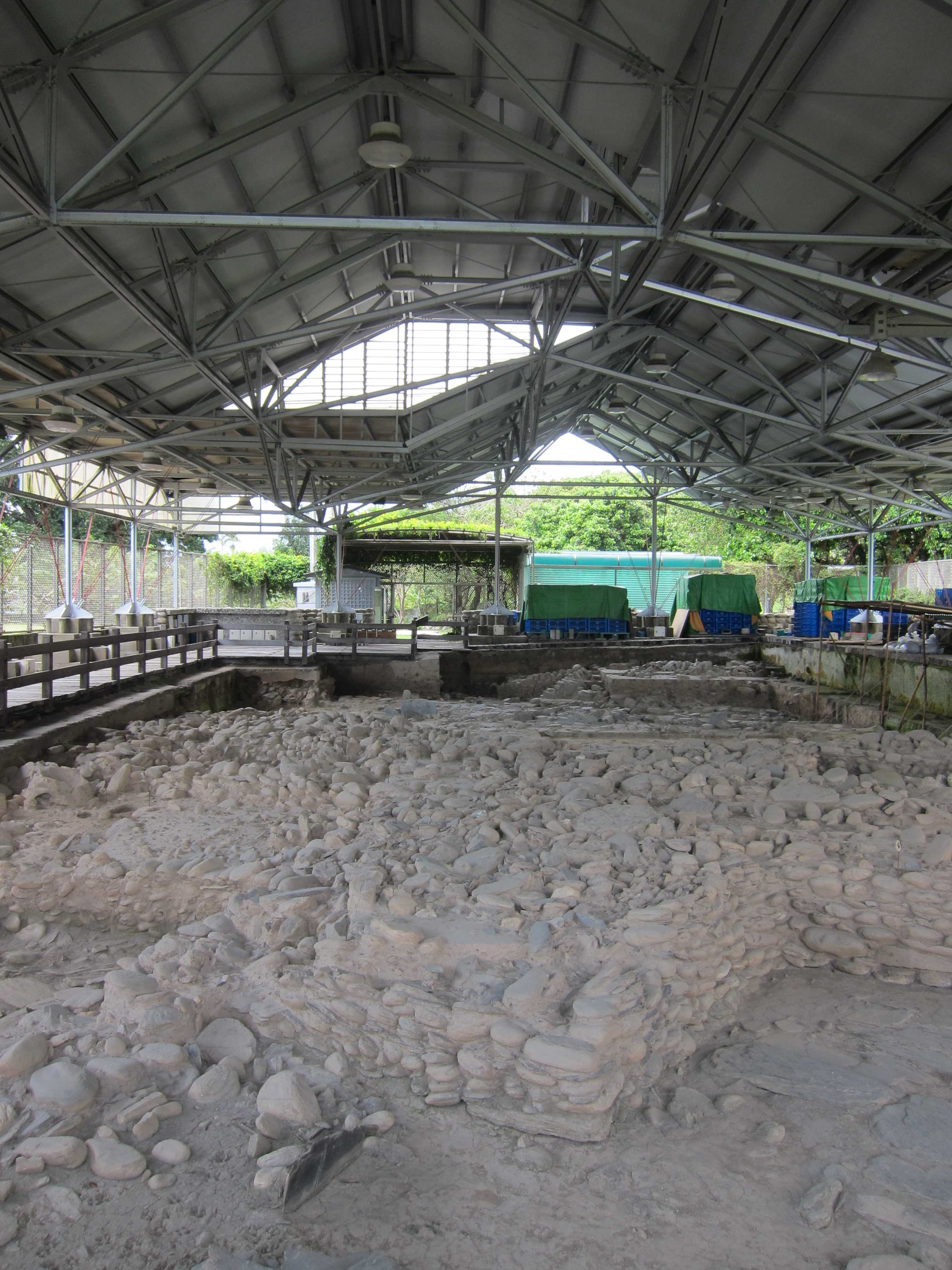 The Peinan Site at the National Museum of Prehistory